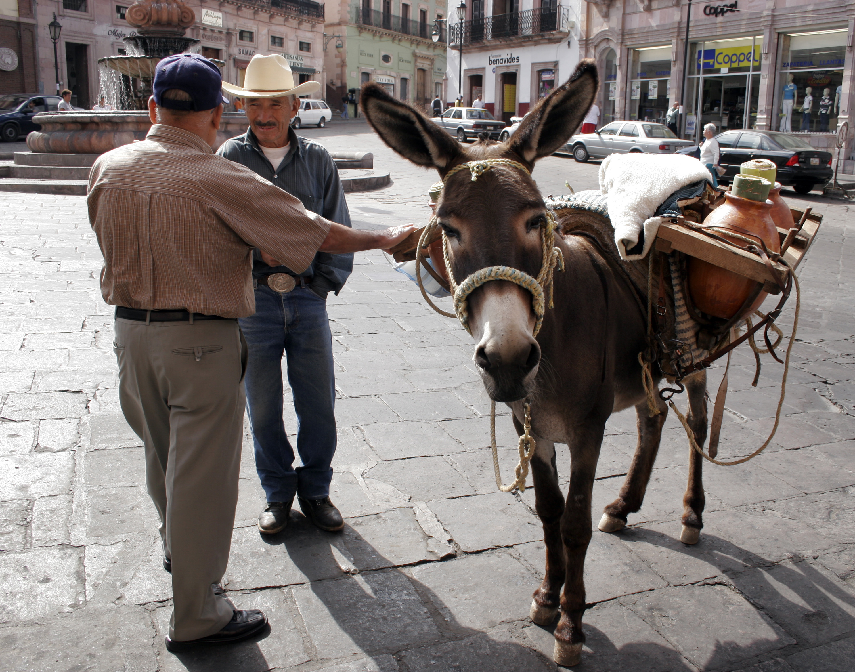 Pulque vendor and his donkey. Pulque is a traditional beverage from Mexico, made out of the Maguey plant. Taken at the city of Zacatecas, Mexico.